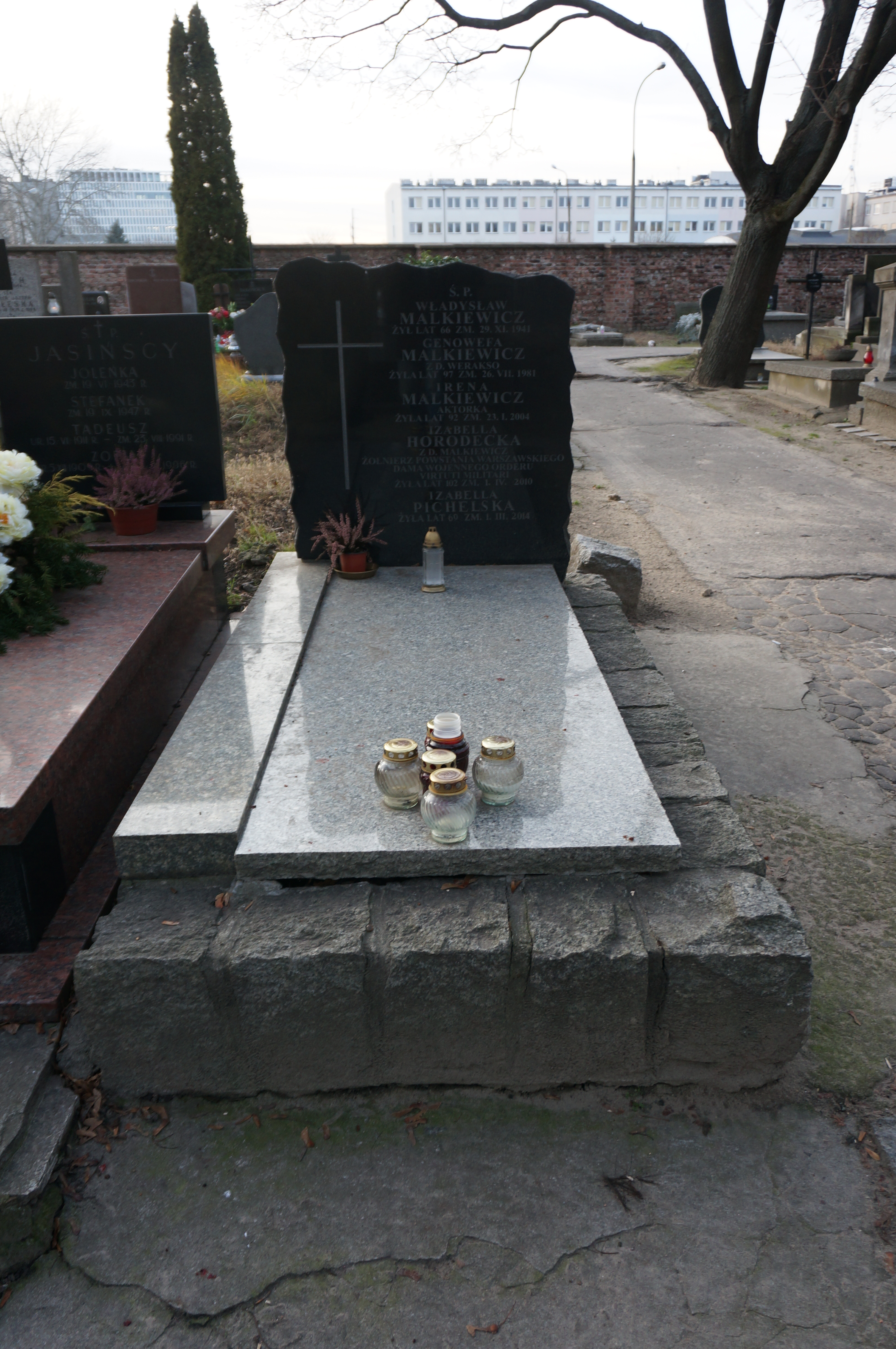 The grave of Irena Malkiewicz at the Powązki Cemetery (section 346, row 1, grave 1)